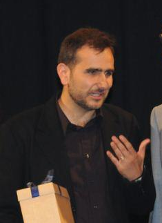 Peruvian theatre director an actor Giovanni Ciccia at Teatro Mario Vargas Llosa, in September 2009.